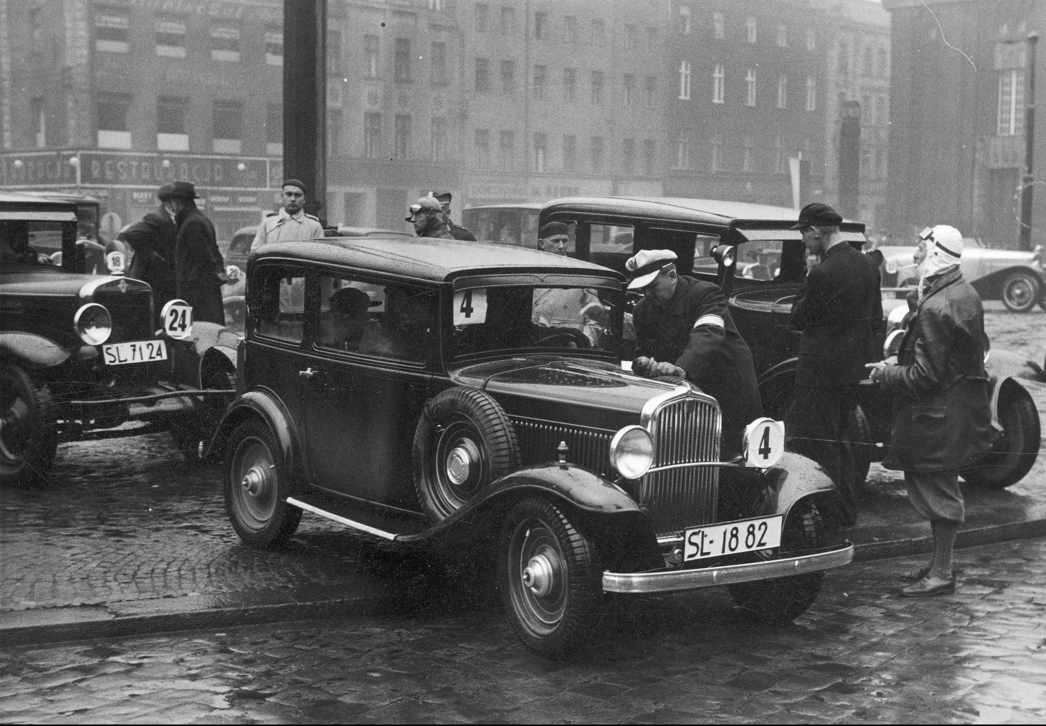 Rally towards the Olza River in Katowice, Poland.